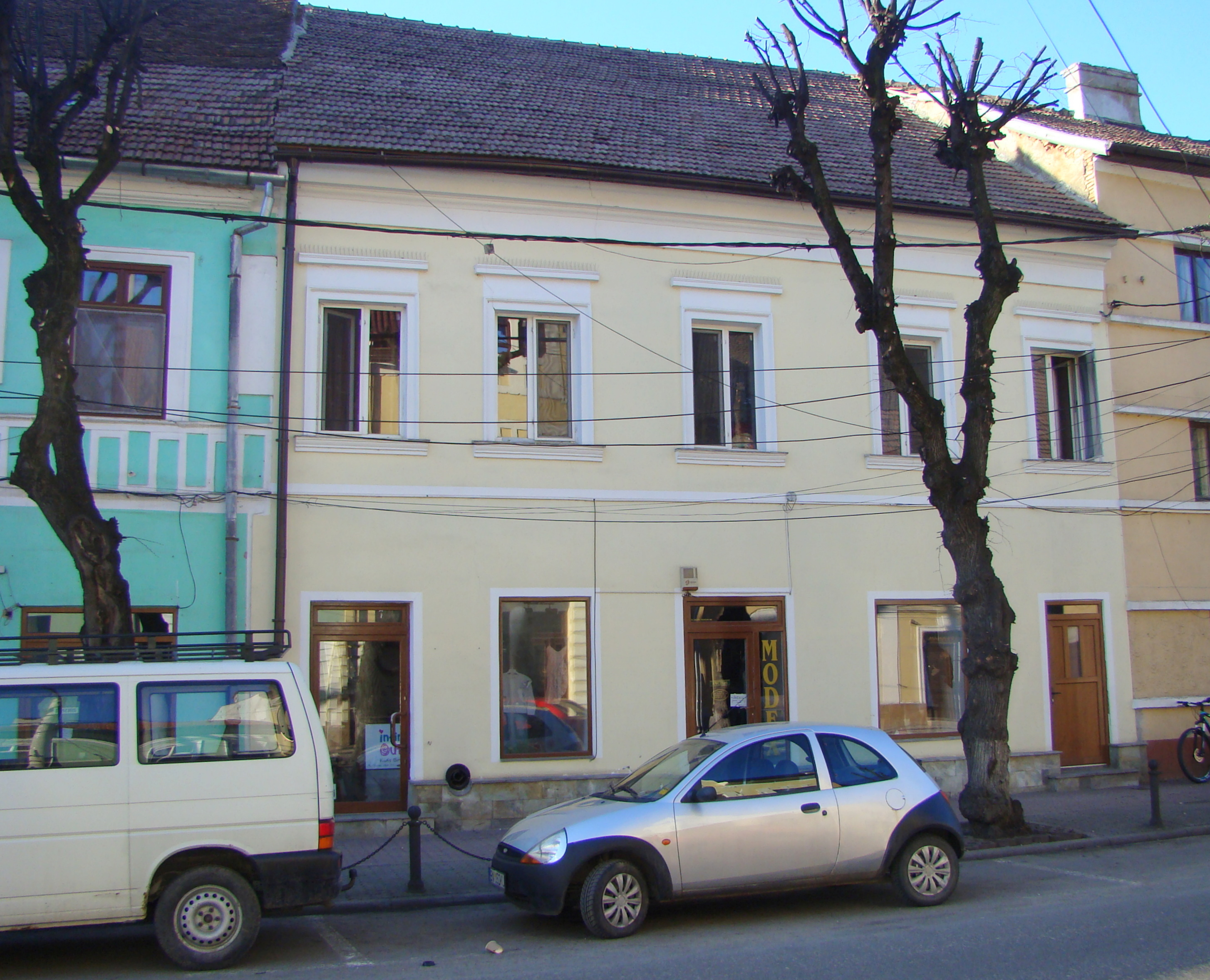 House, historic monument, in Bistriţa, Dornei street, number 10